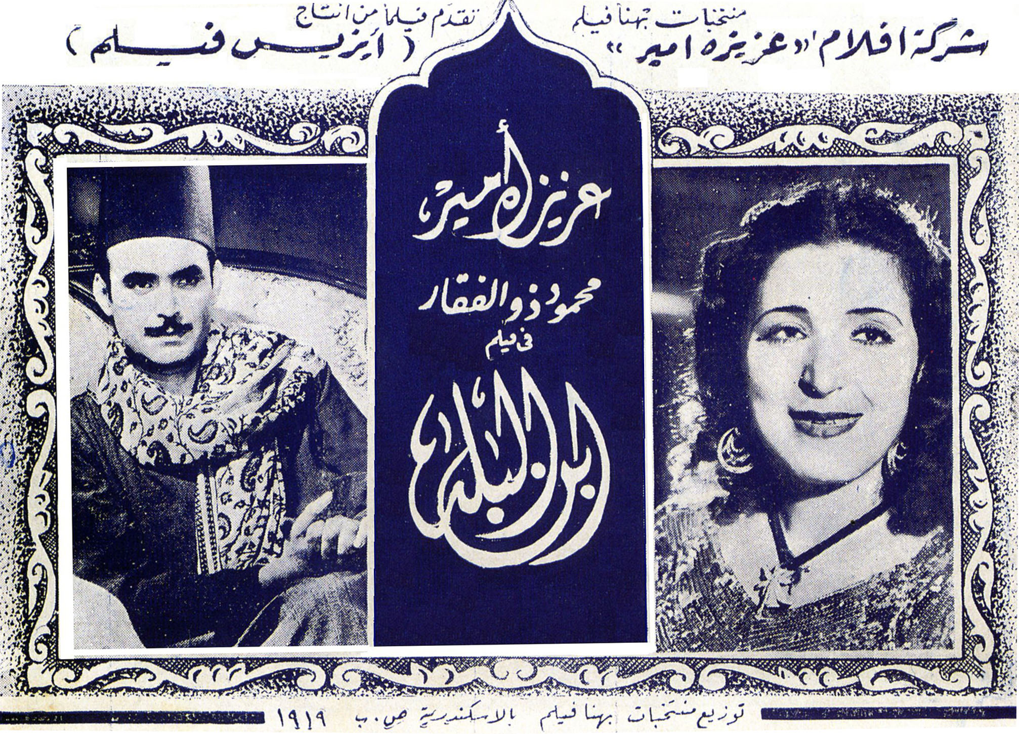 Movie poster of the Egyptian film Ibn el balad (1943).[1]